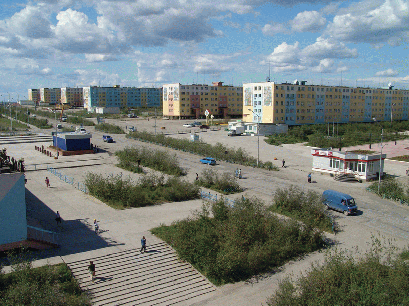 view of city Udachnuy